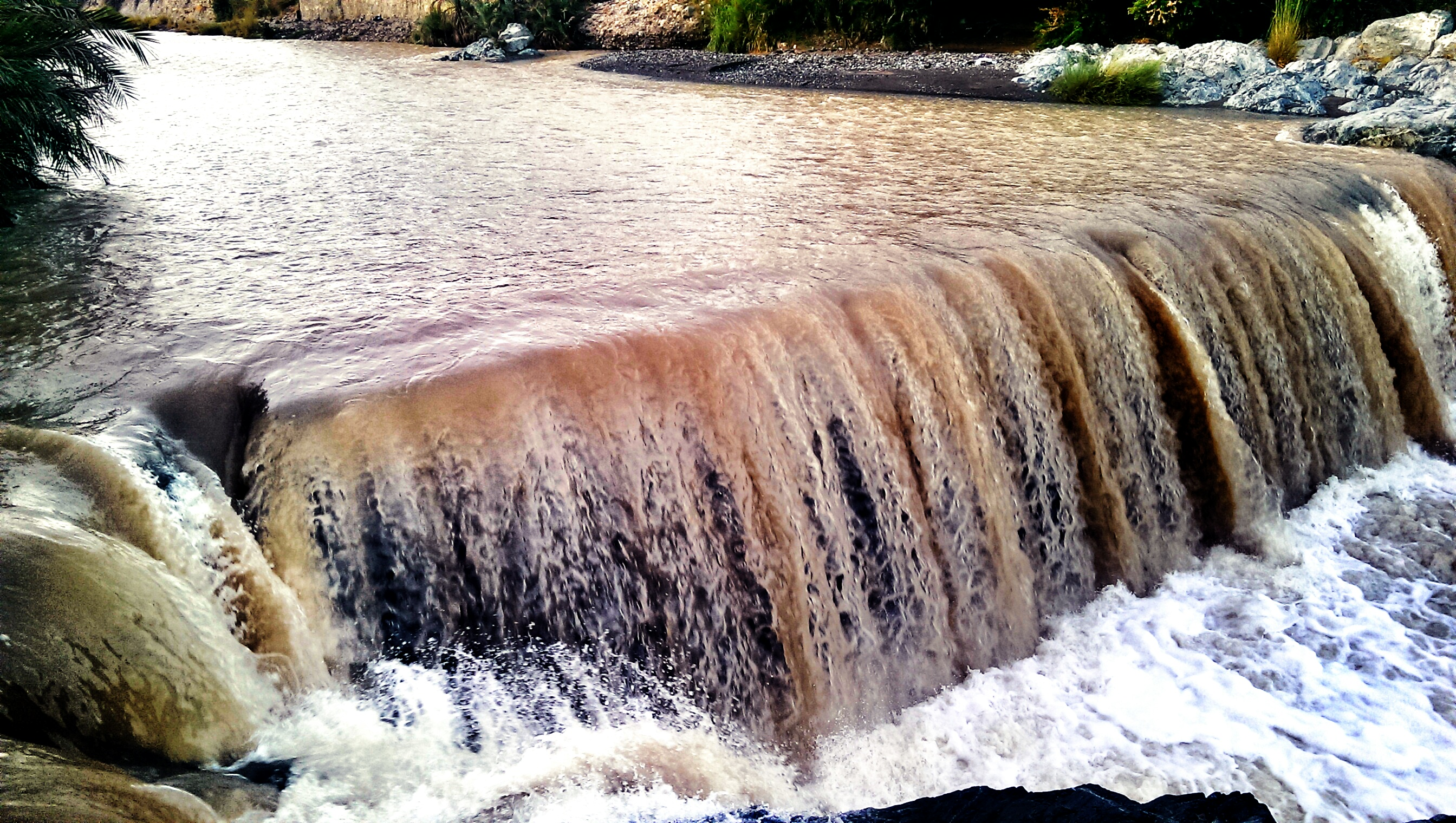 Alhoqain waterfall's after rain